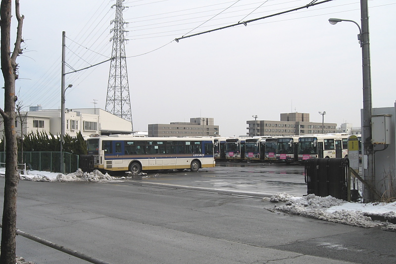 Keio Bus Minami Minami-Osawa Depot in Hachioji, Tokyo, Japan (taken from public road)